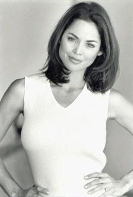 American model and actress Deborah Driggs.